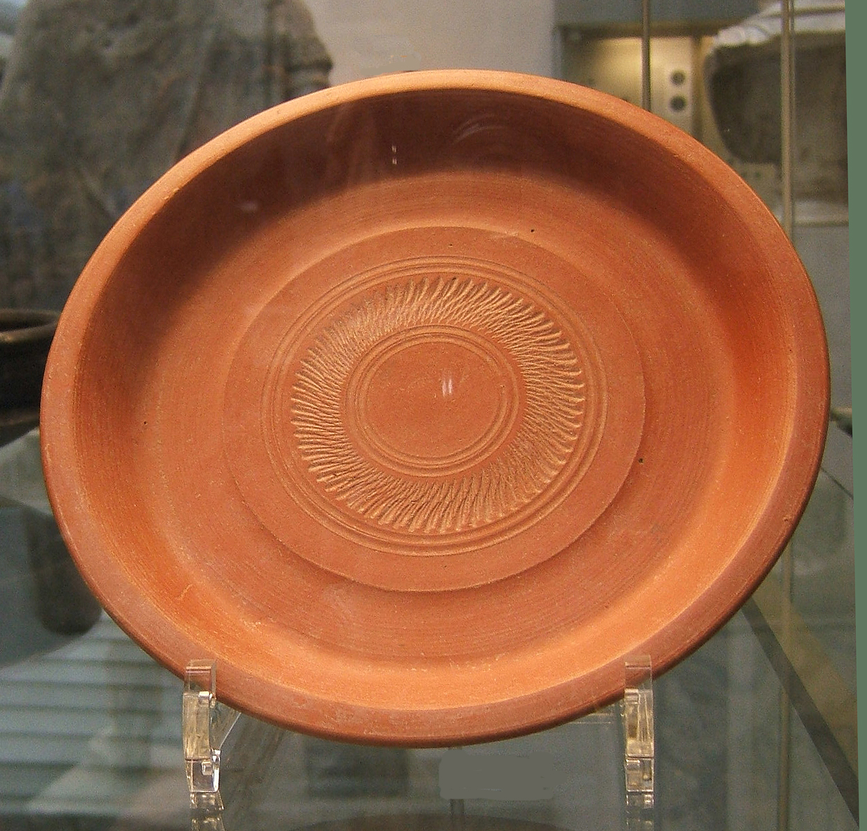 African Red Slip dish, made in Tunisia, AD 350-400. Diam. 20.5 cm. British Museum, London. Greek and Roman, 1994.7-20.2